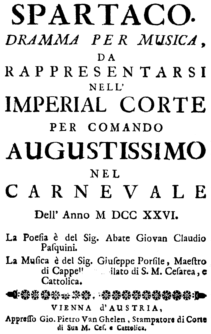 Giuseppe Porsile - Spartaco - titlepage of the libretto - Vienna 1726